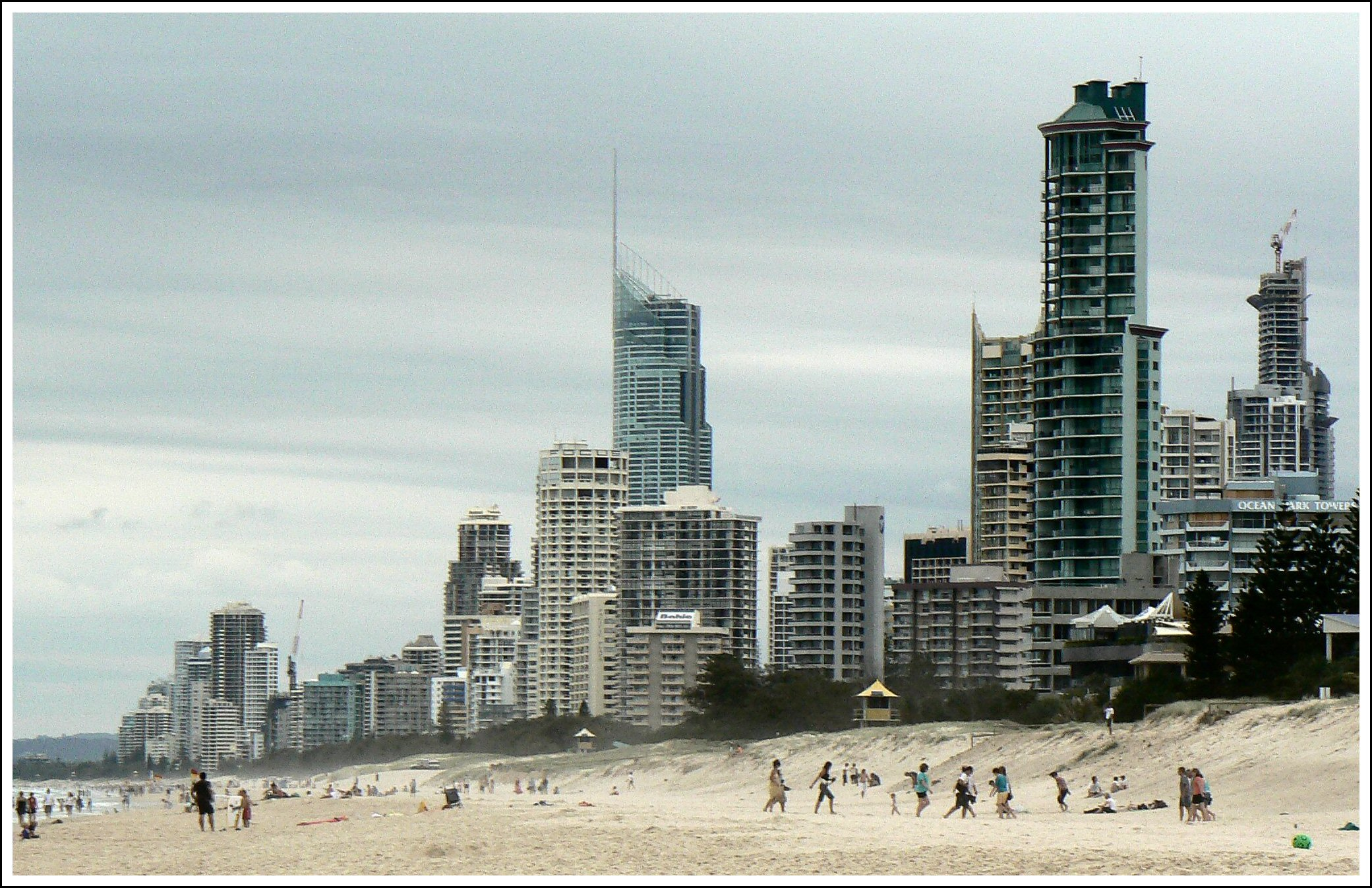 Surfers Paradise in the Gold Coast